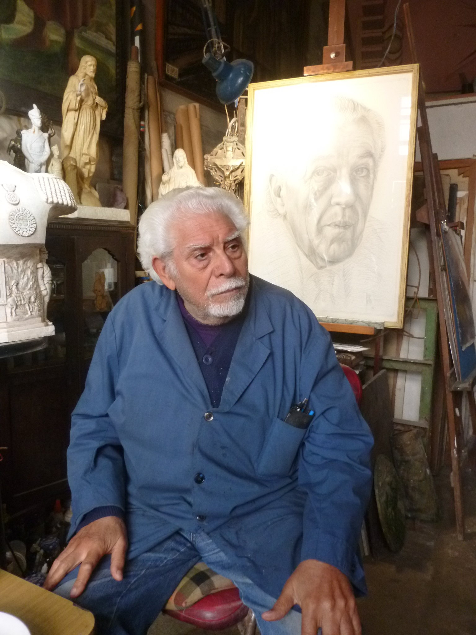 Francisco Pelló (August 12, 1935) is an Argentine-Spaniard sculptor, writer, poet.